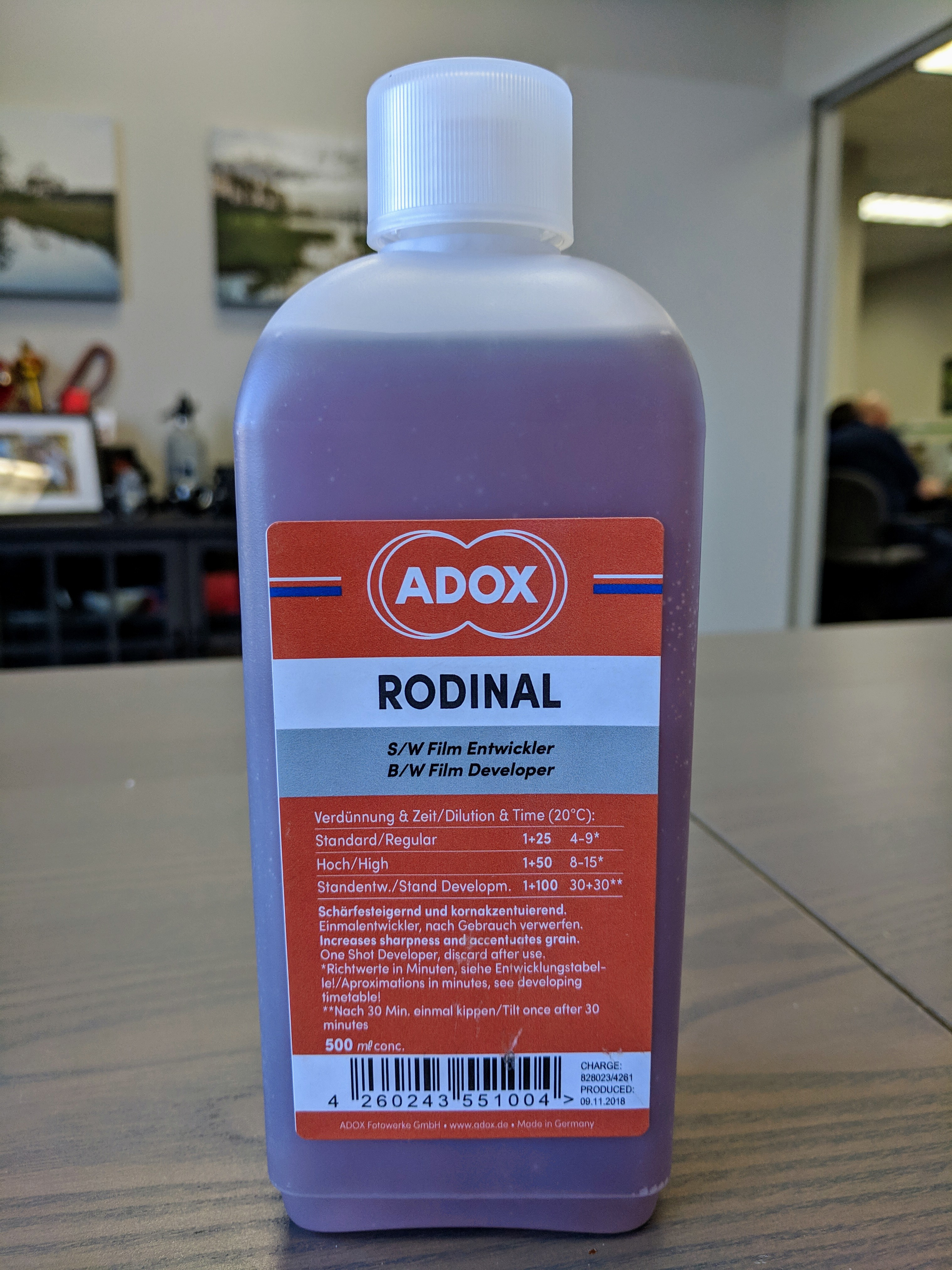 A bottle of Rodinal in its current configuration (2018). Still available since 1891.